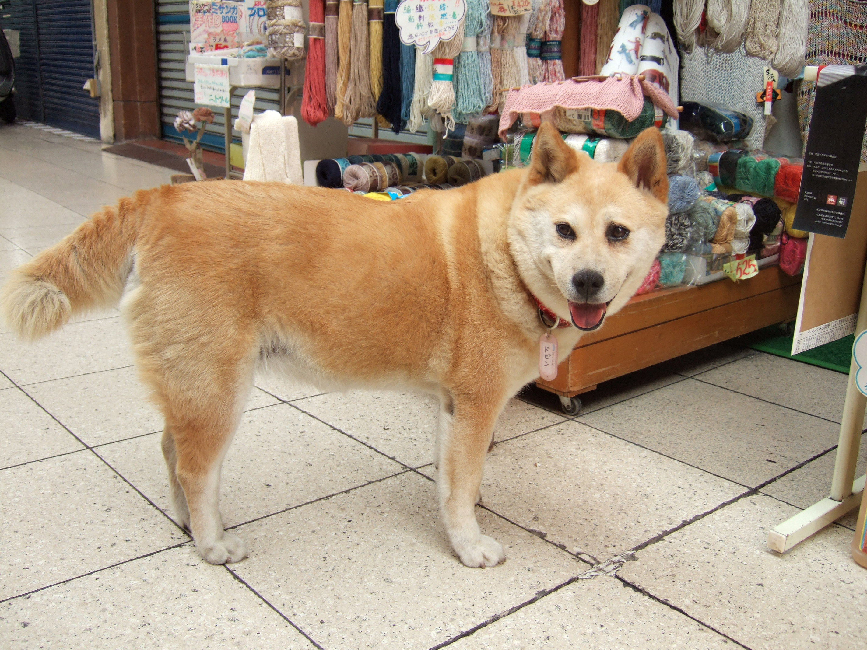 Dobbyn, famous guide dog of Onomichi City, Hiroshima Prefecture, Japan 尾道商店街のドビン